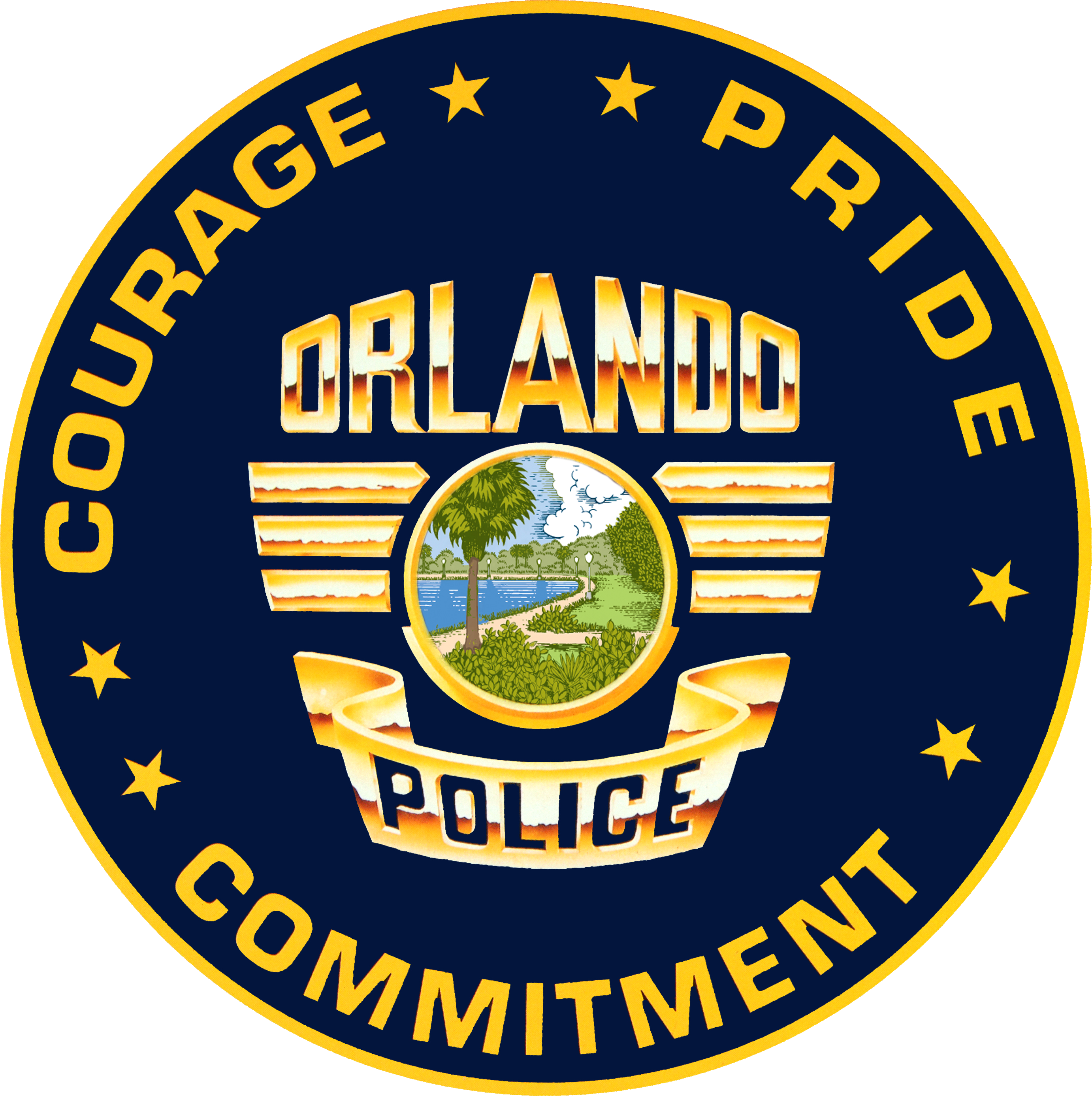 Logo of the Orlando, Florida Police Department.